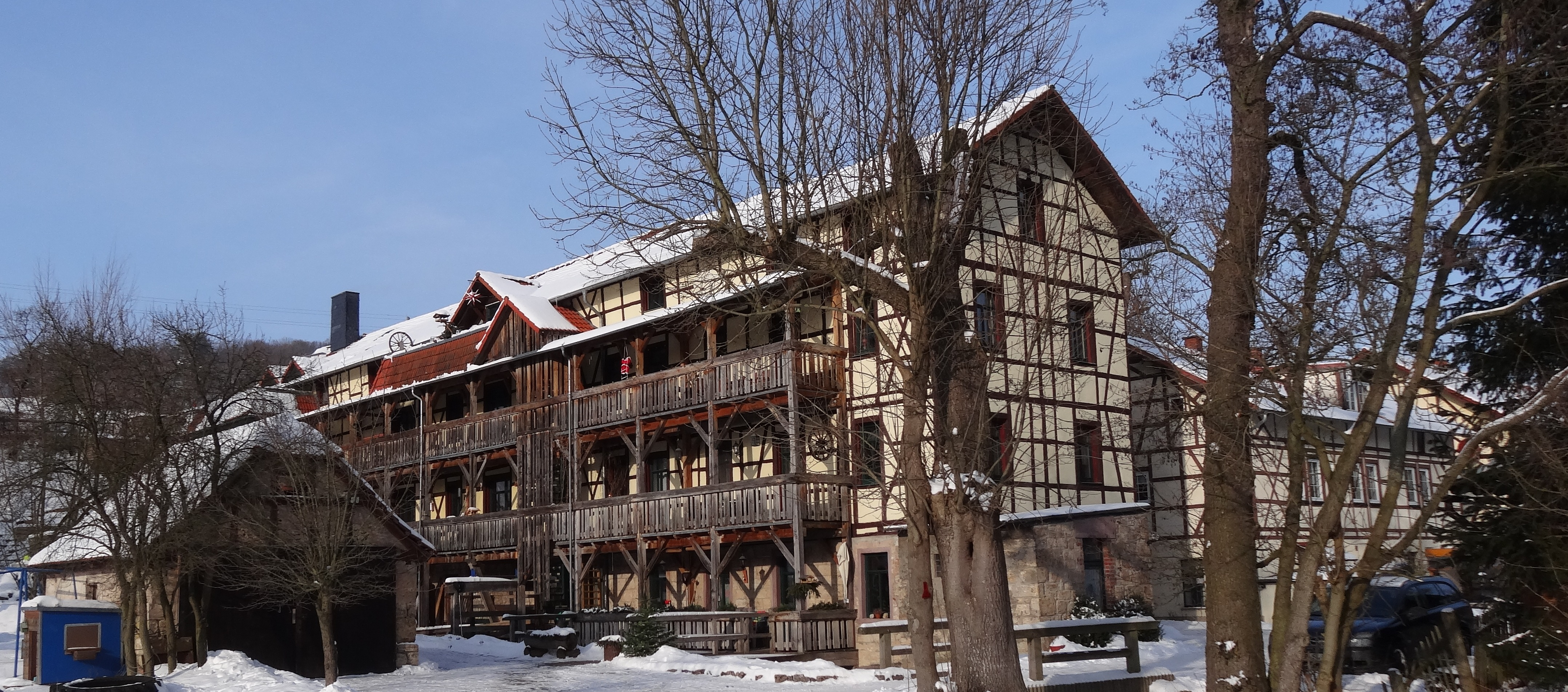 Old mill in Hetschburg, Thuringia, Germany